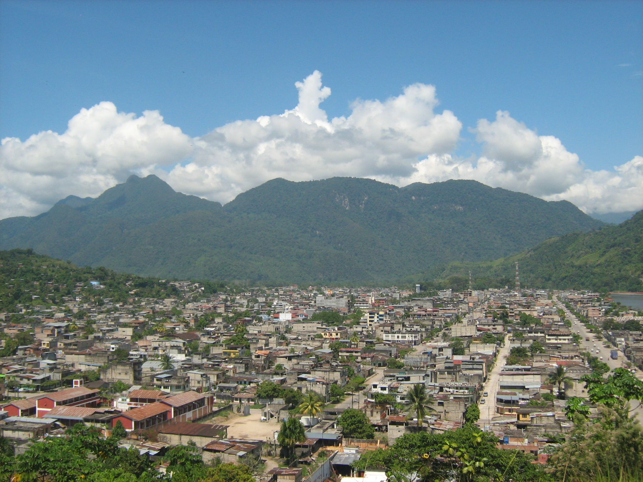 "The Sleeping Beauty", a curious limestone mountain range in the shape of a woman that sleeps. Tingo María - Perú